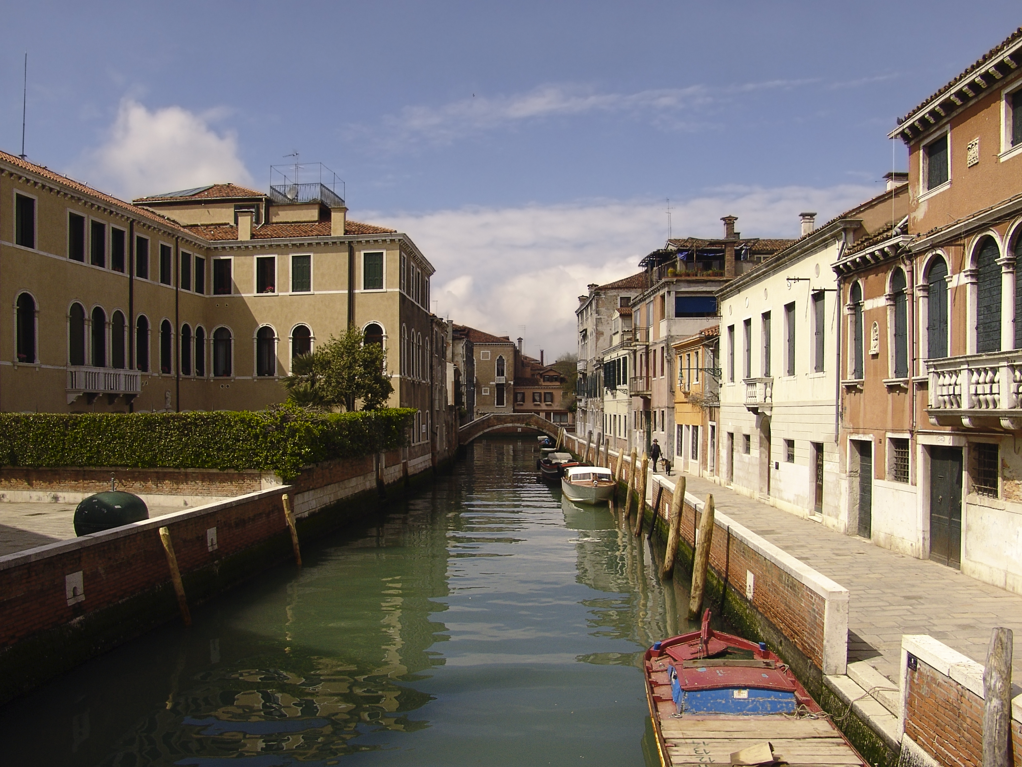 Rio San Sebastiano, seen from the bridge "San Sebastiano", Venice.